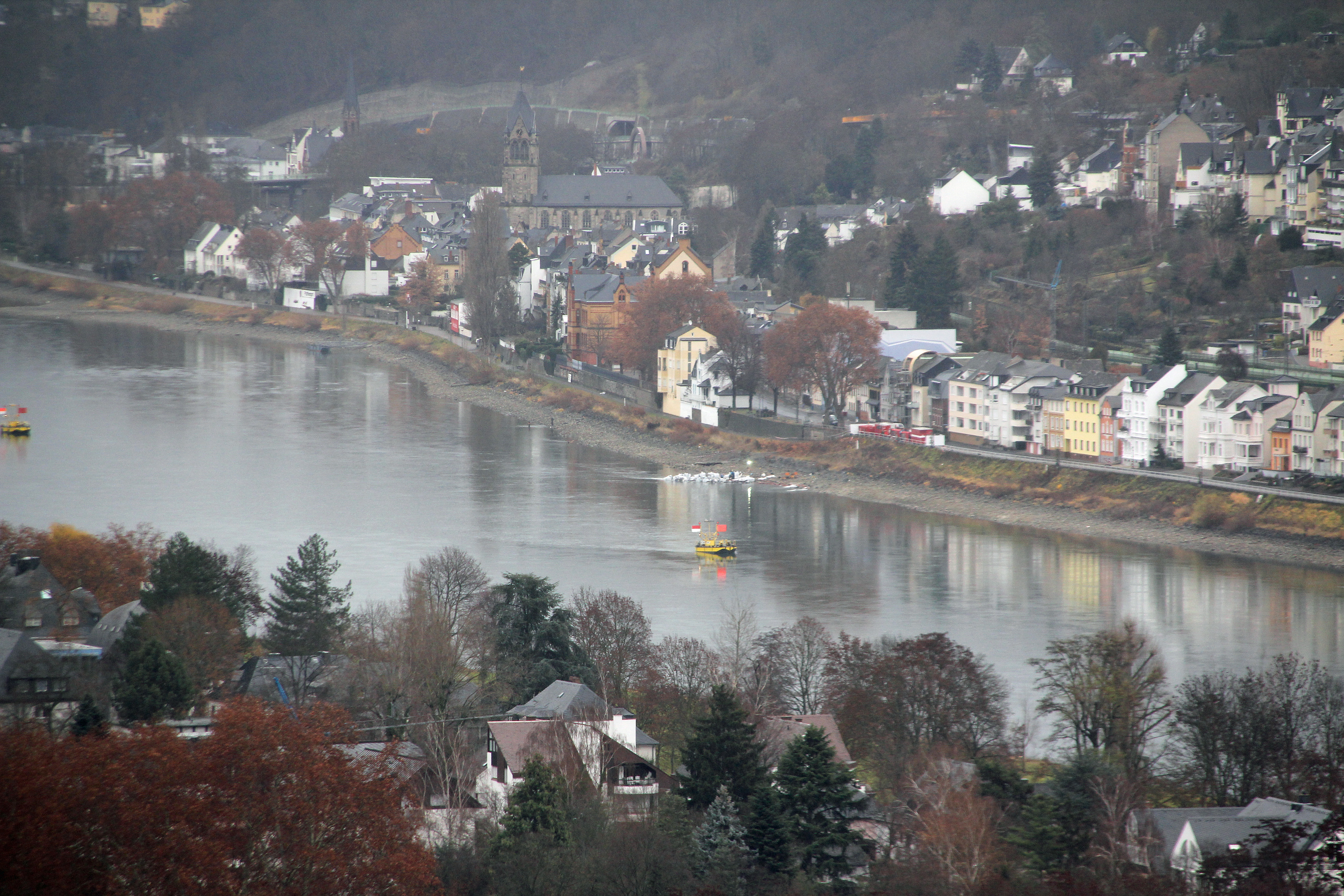 British WW2 Air-dropped bomb found in Koblenz